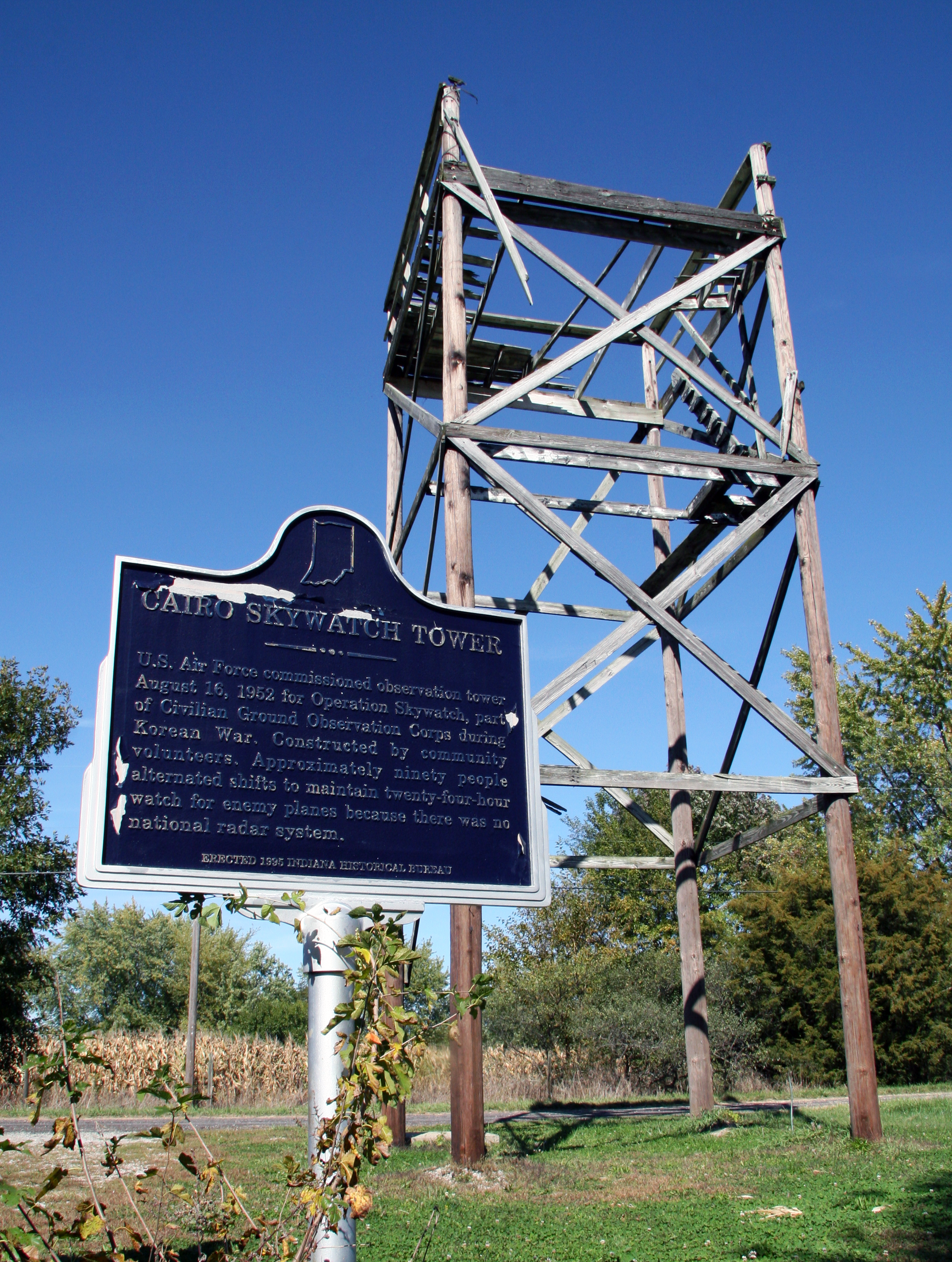 Cairo Skywatch Tower in the small community of Cairo in Tippecanoe County, Indiana, United States.